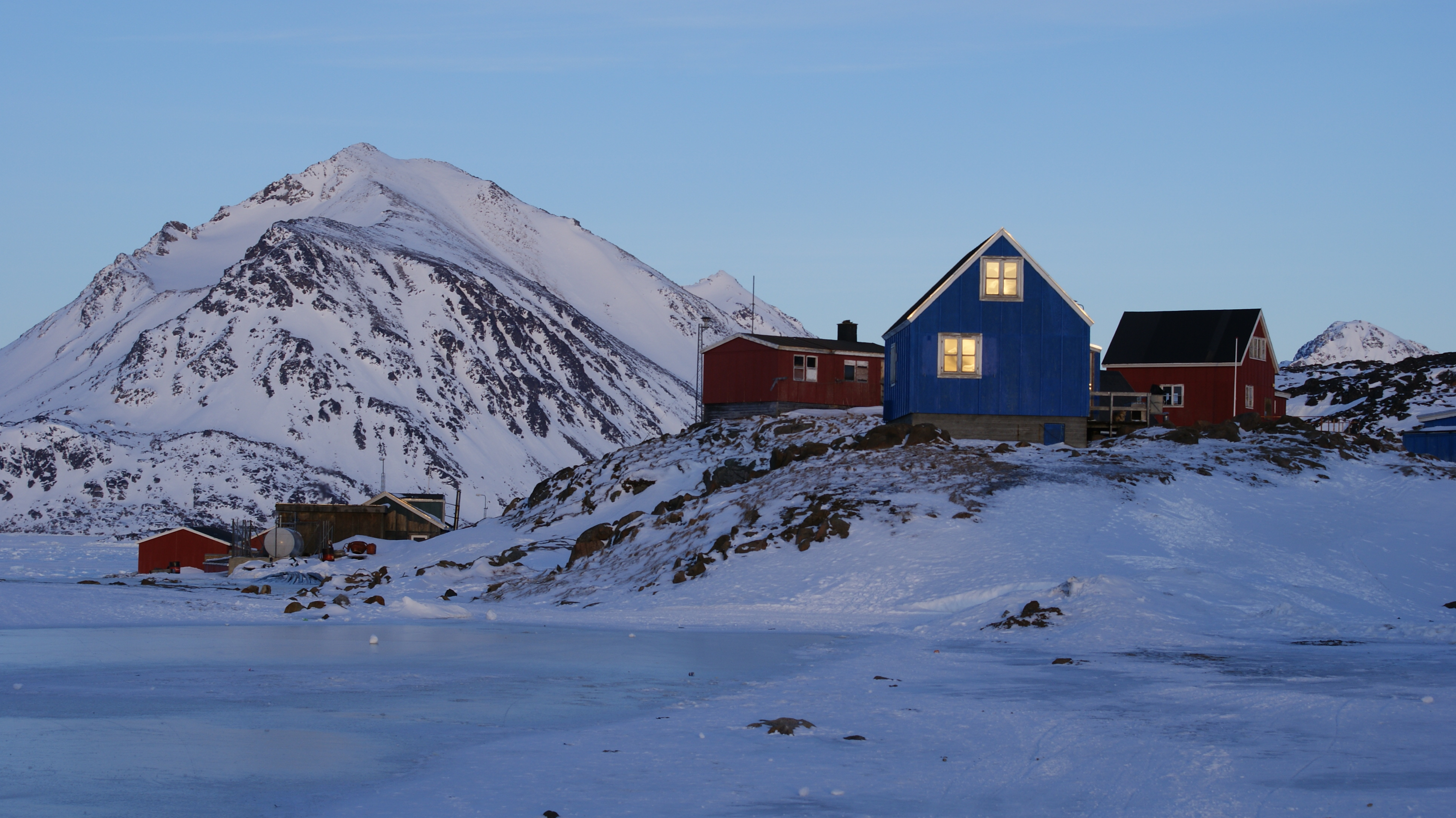 Kulusuk, Greenland. Winter sunset reflect in the house windows.